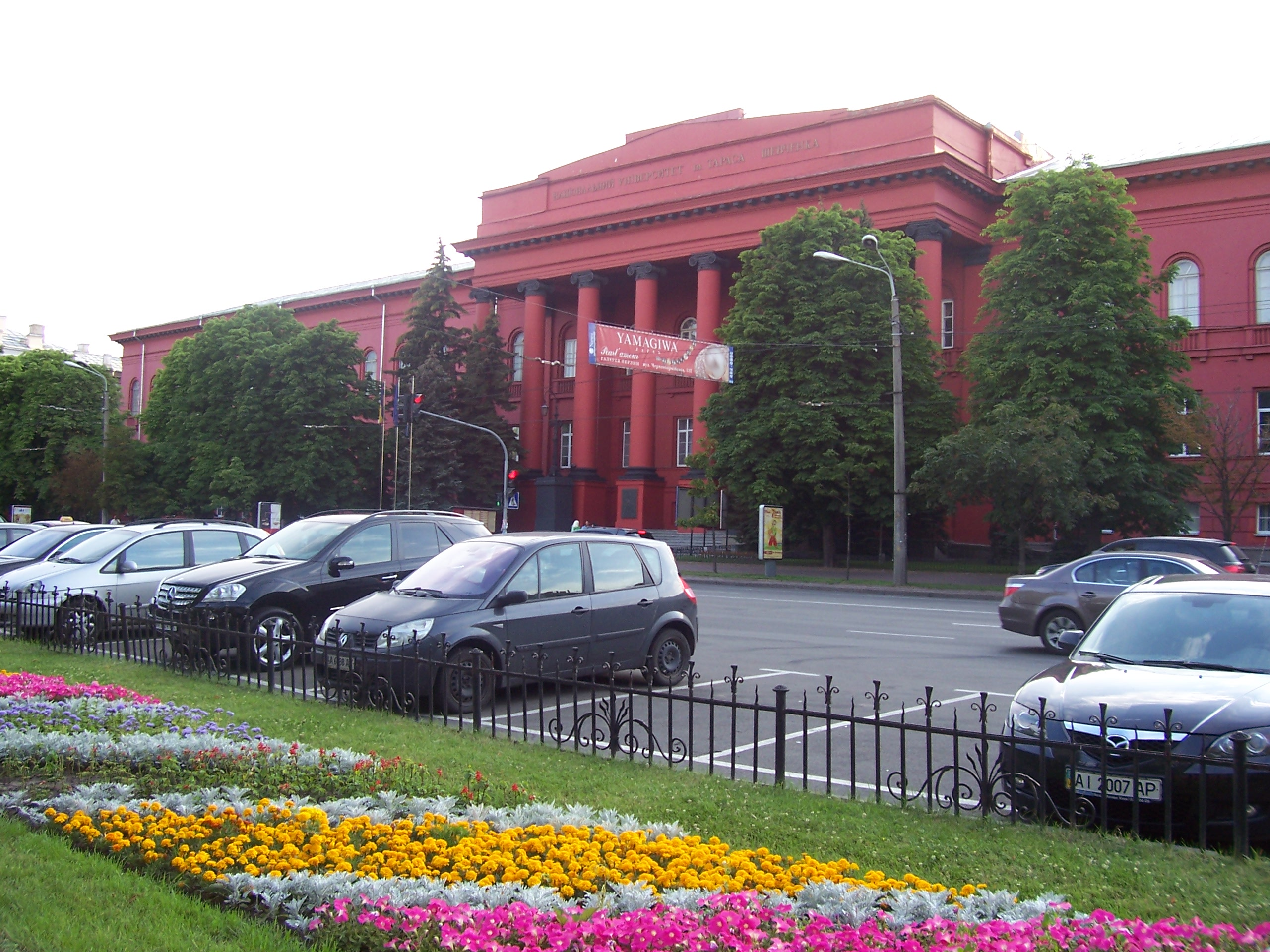 Kiev University